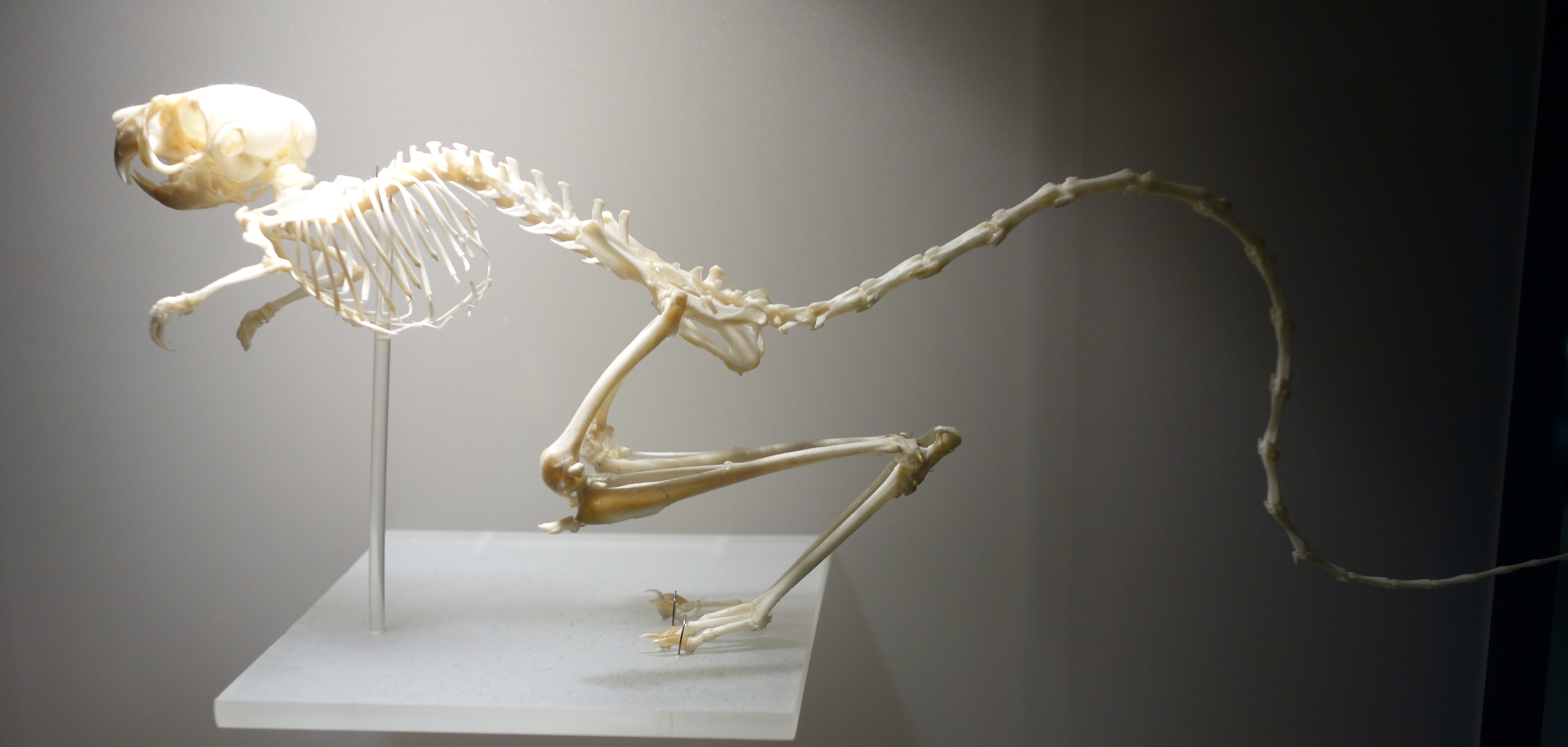 Exhibit in the National Museum of Nature and Science, Tokyo, Japan.